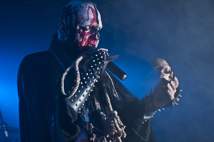 Mayhem, live at Hole In The Sky 2011